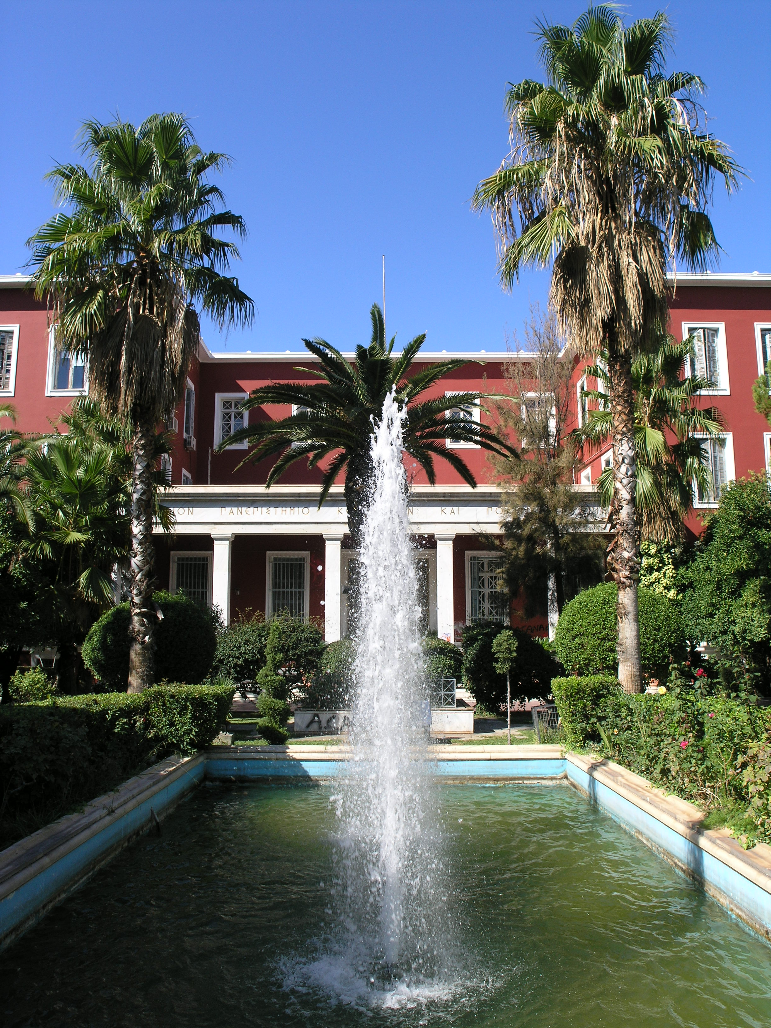 The first, historic building of Panteion University of Social and Political Sciences (located in Athens, Greece), in which nowadays are housed the university’s central administrative departments, the Rector’s office, and the library. The building’s foundation stone was ceremonially laid on January 2, 1927 by the first President of the Second Hellenic Republic, Admiral Pavlos Kountouriotis. Classes began three years later, on November 18, 1930, in the presence of the eighth Prime Minister of the Second Hellenic Republic, Eleftherios Venizelos, who was one of Panteion University’s first donors and benefactors.